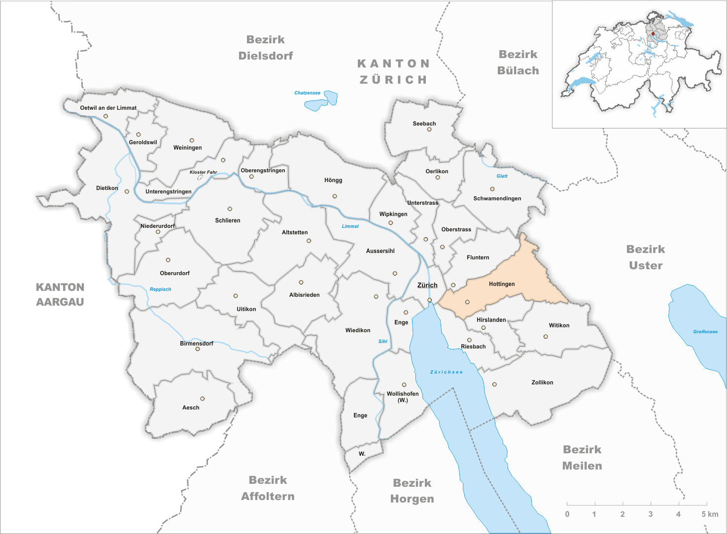 Municipality Hottingen